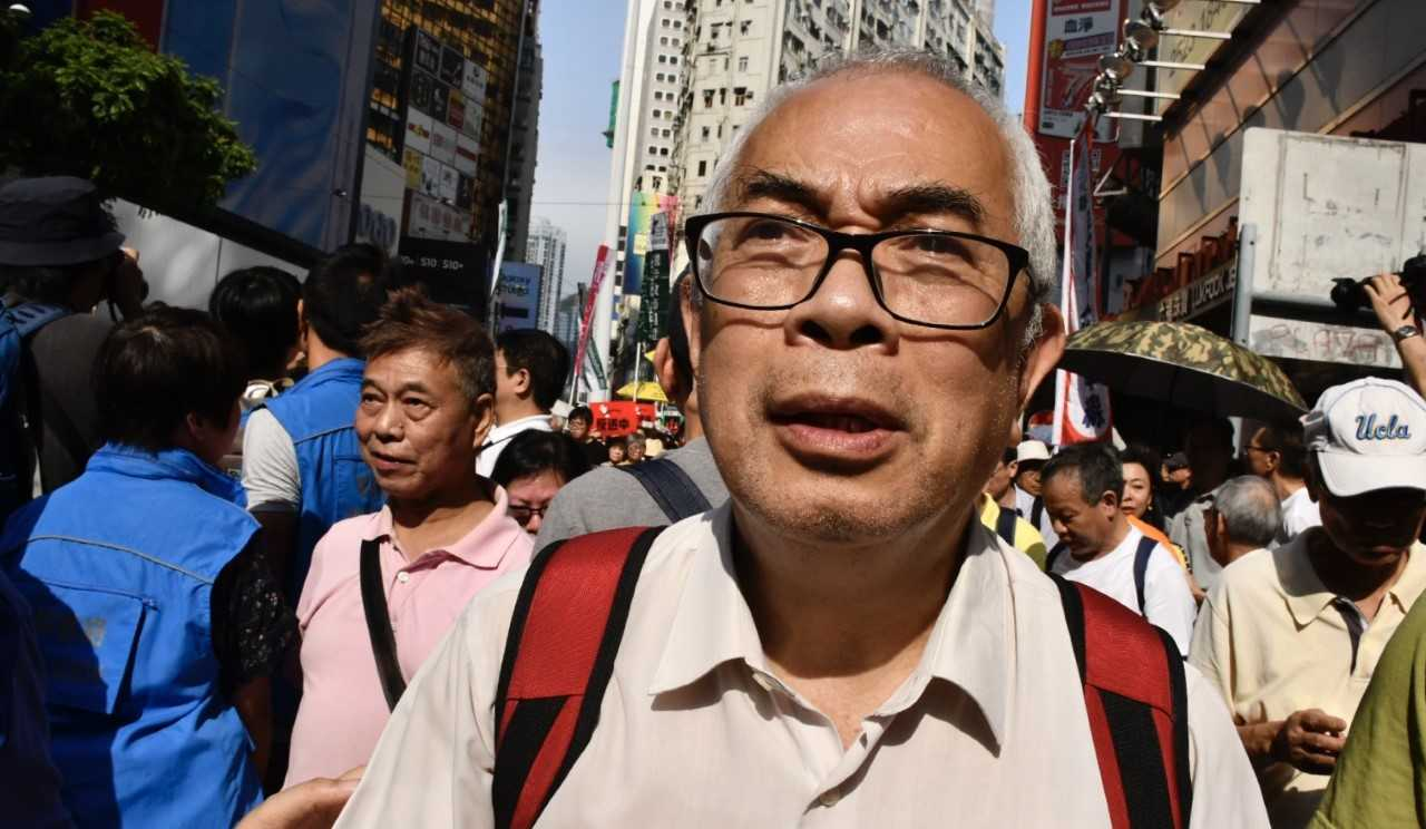 Depicted person: Ching Cheong – Hong Kong journalist